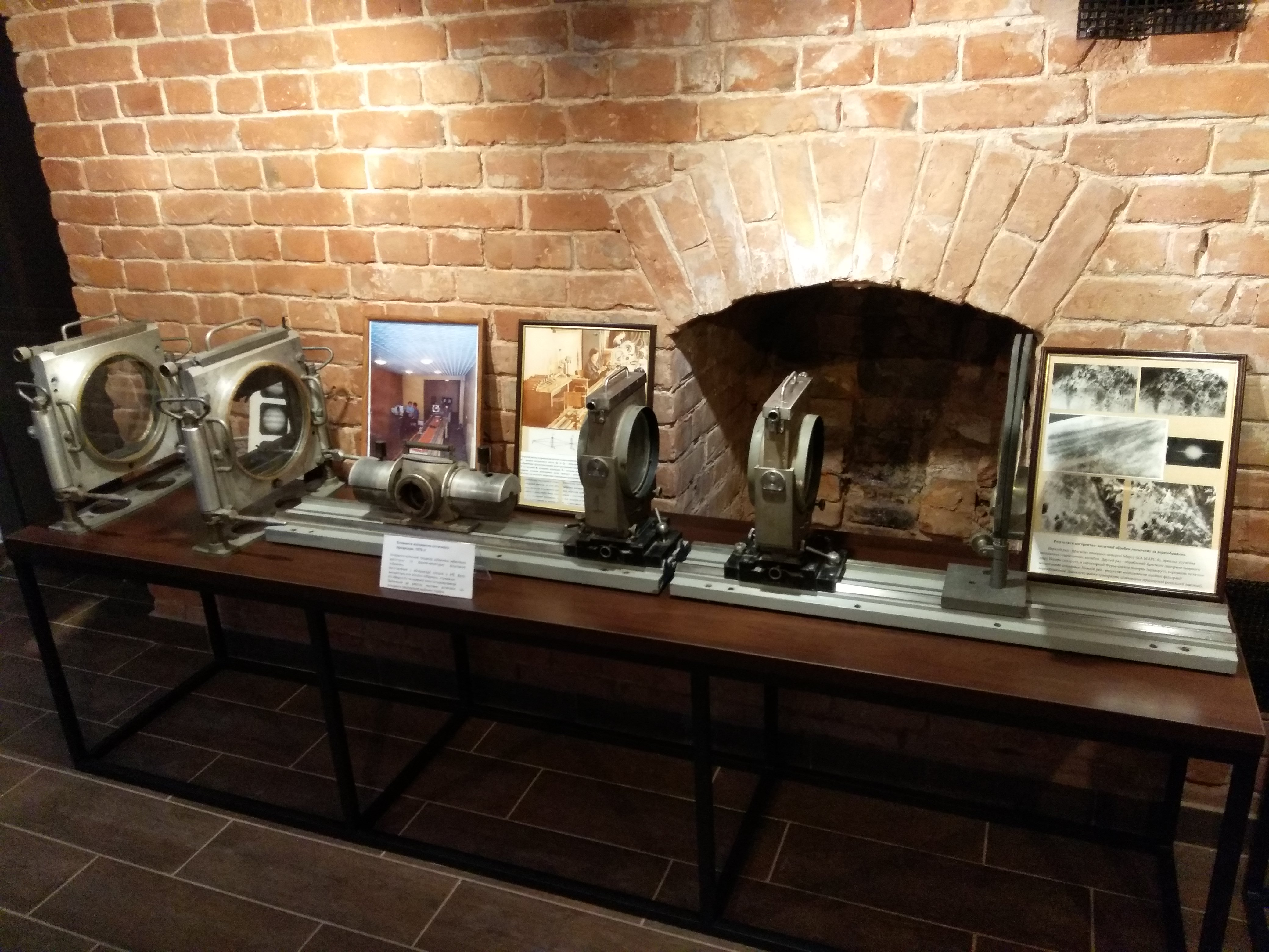 Optical bench in the Museum of Astronomy of V. N. Karazin Kharkiv National University